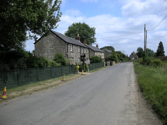 Radstone Cottages Stone cottages on the road into Radstone.